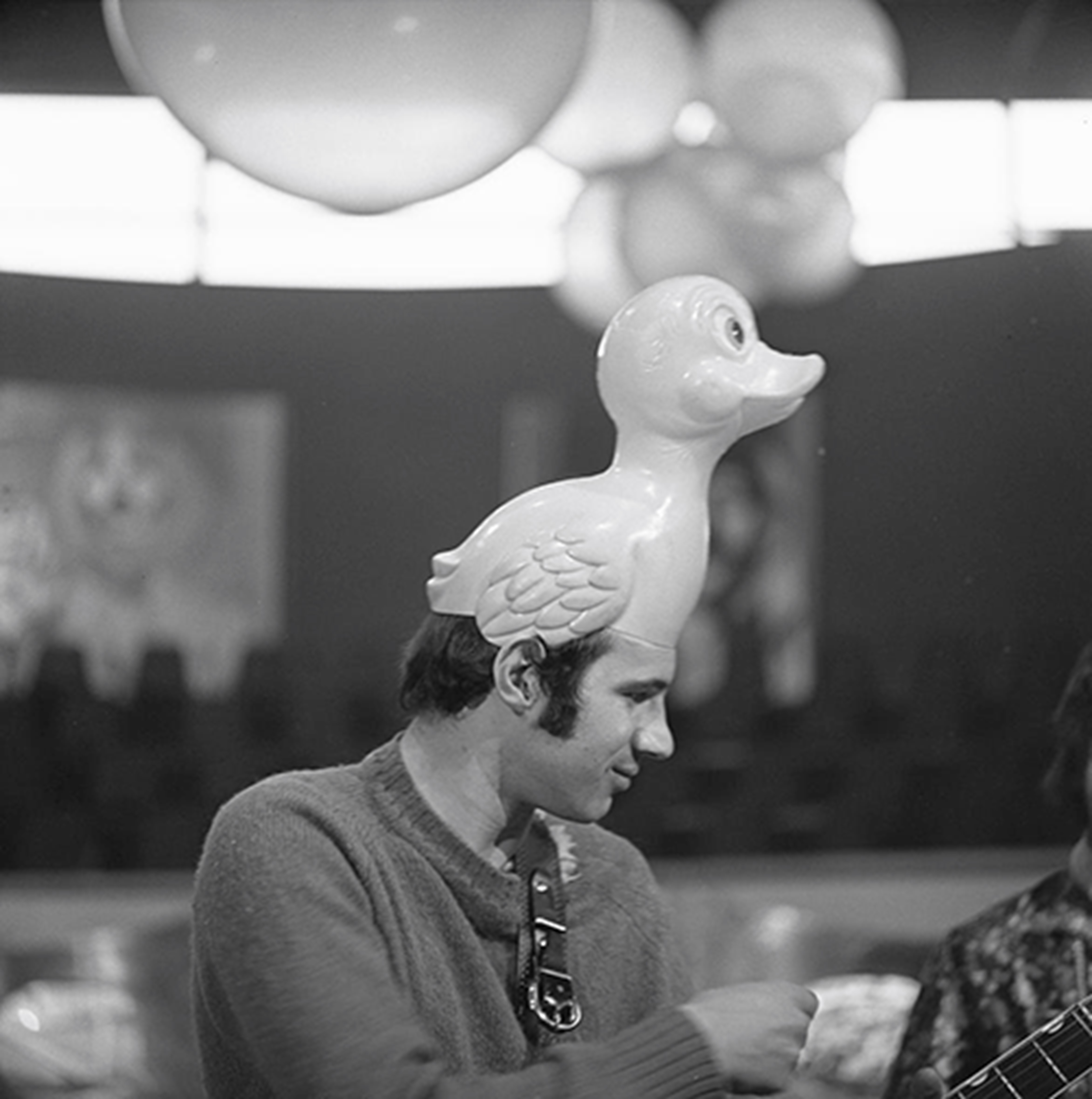 Bonzo Dog Doo-Dah Band in Fenklup (Dutch TV), 7 June 1968. Neil Innes.